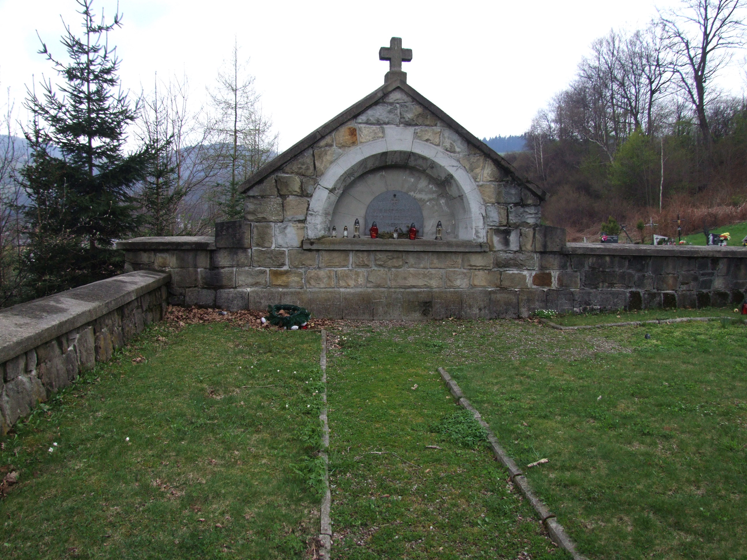 World War I Cemetery nr 358 in Laskowa